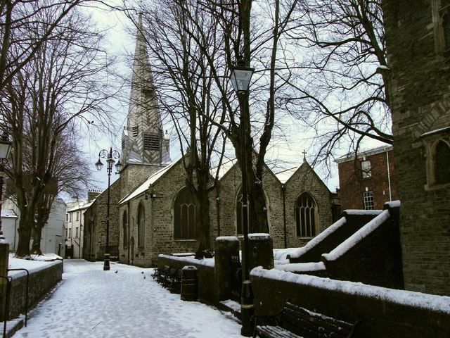 Parish church of SS Peter and Mary Magdalene, Barnstaple, Devon, seen from Paternoster Row in snow